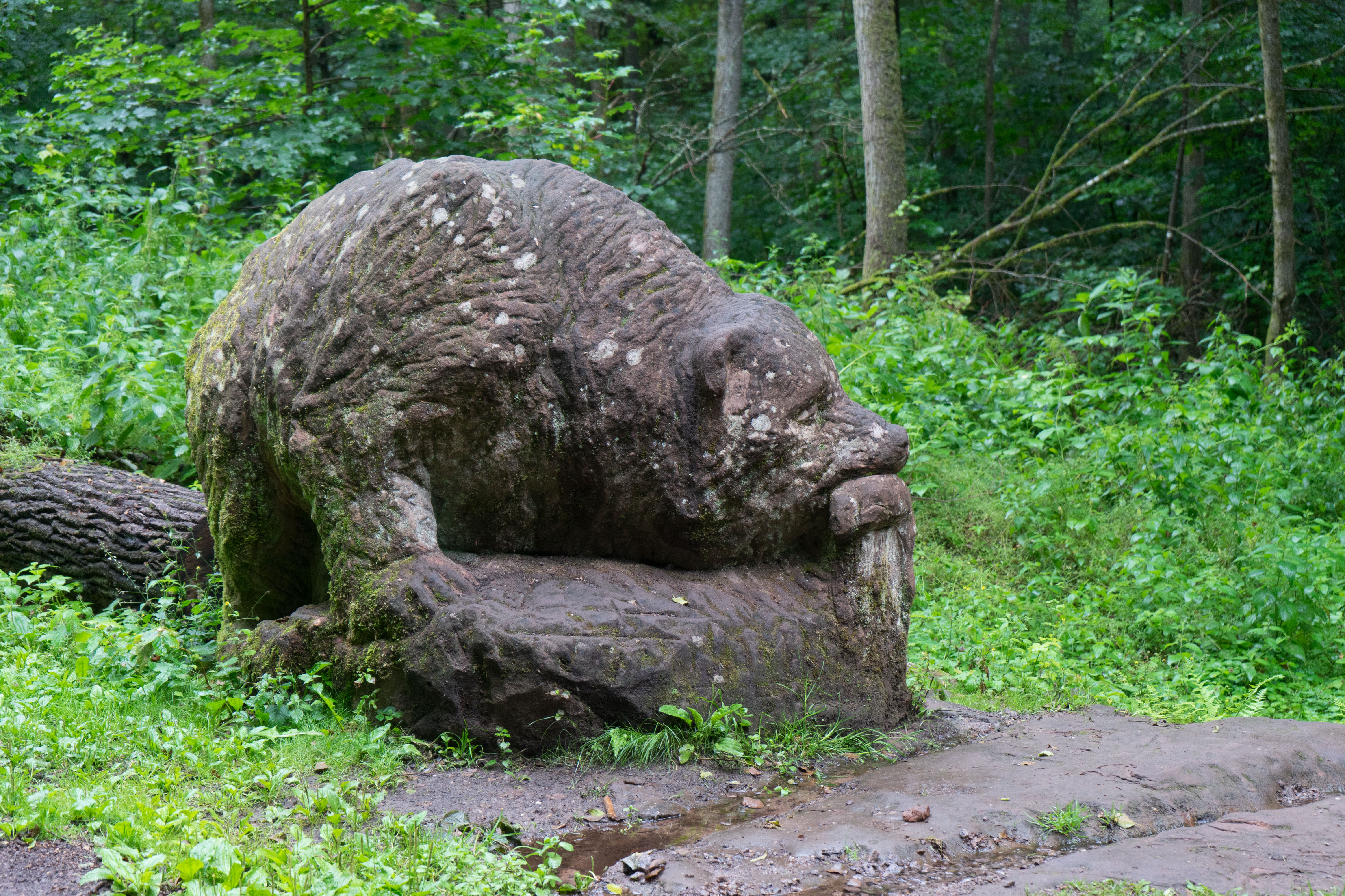 Sculpture of a bear in front of Bärenhöhle, near Rodalben, Pfalz, Germany. Made from sandstone by Rodalben artist Stephan Müller